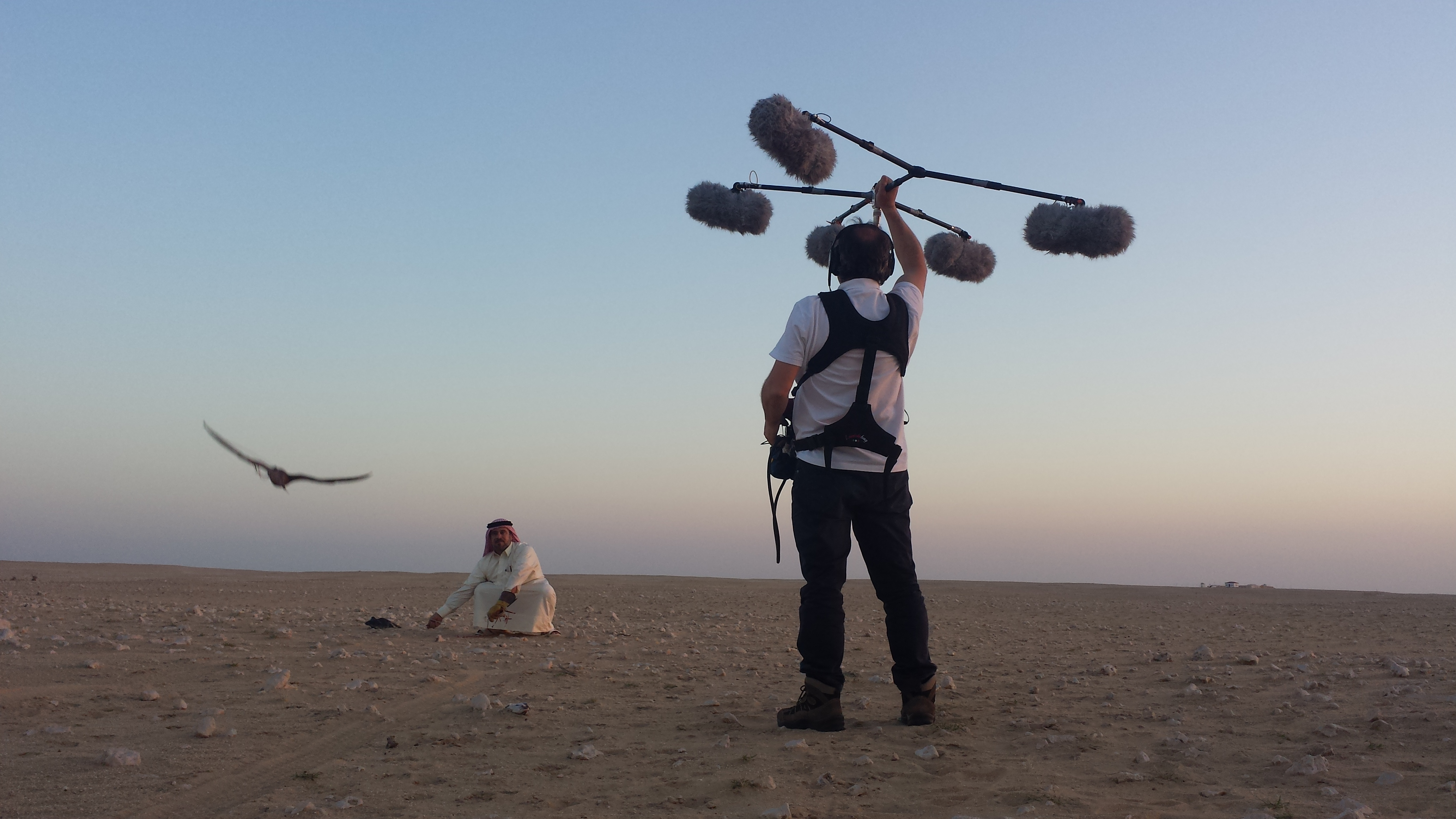 Mirco Mencacci using the Spherical Sound System in the United Emirates